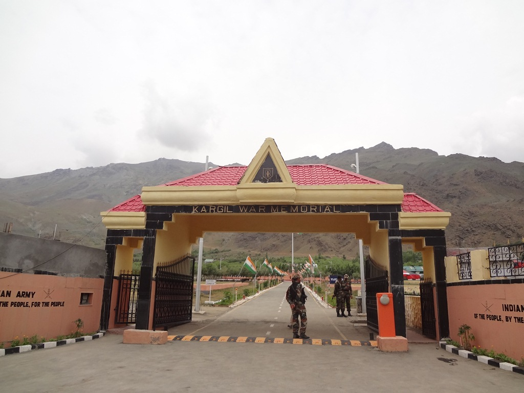 The main entrance of Kargil War Memorial by the Indian Army at Drass